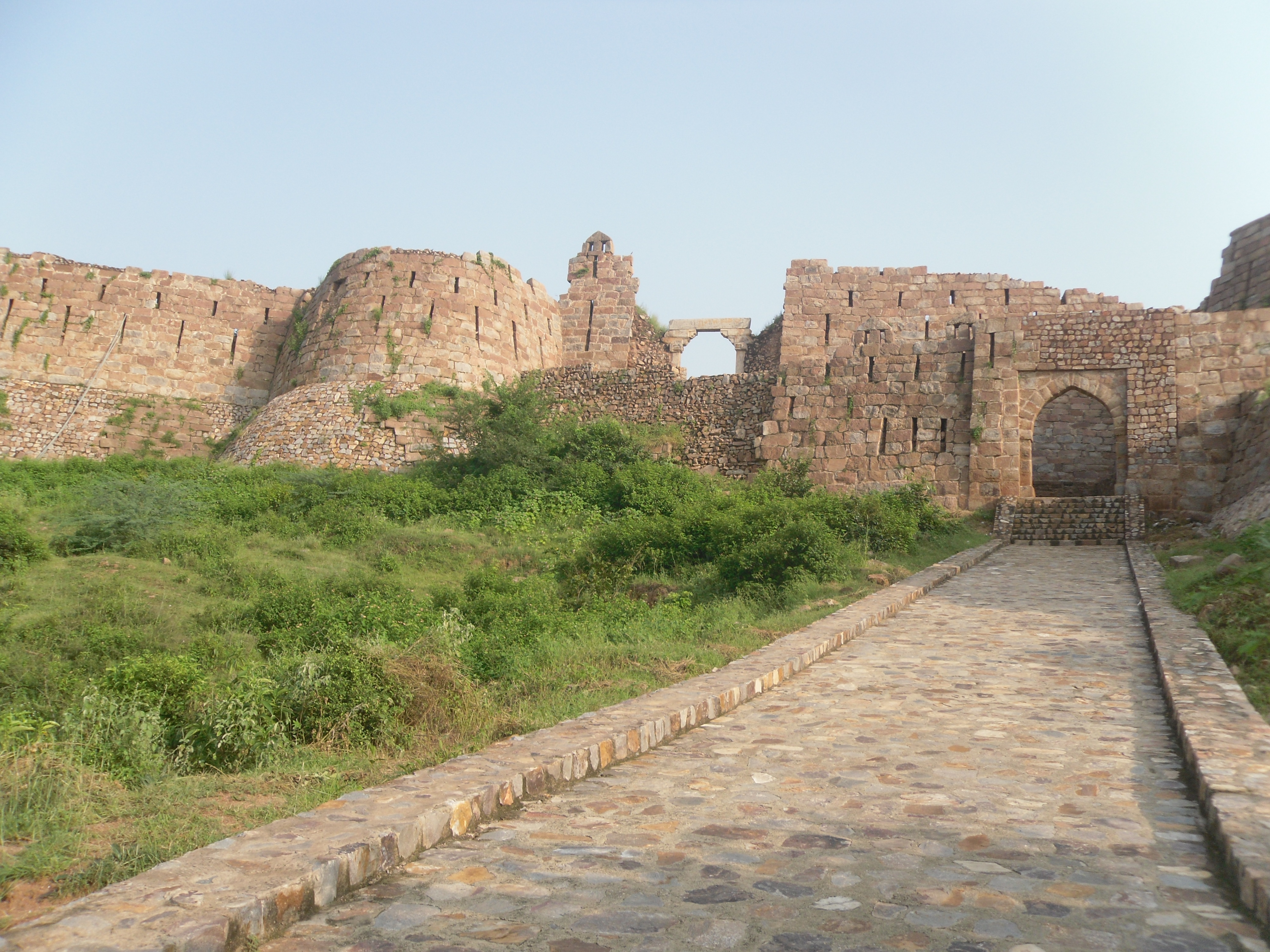 The entrance of the Adilabad Fort